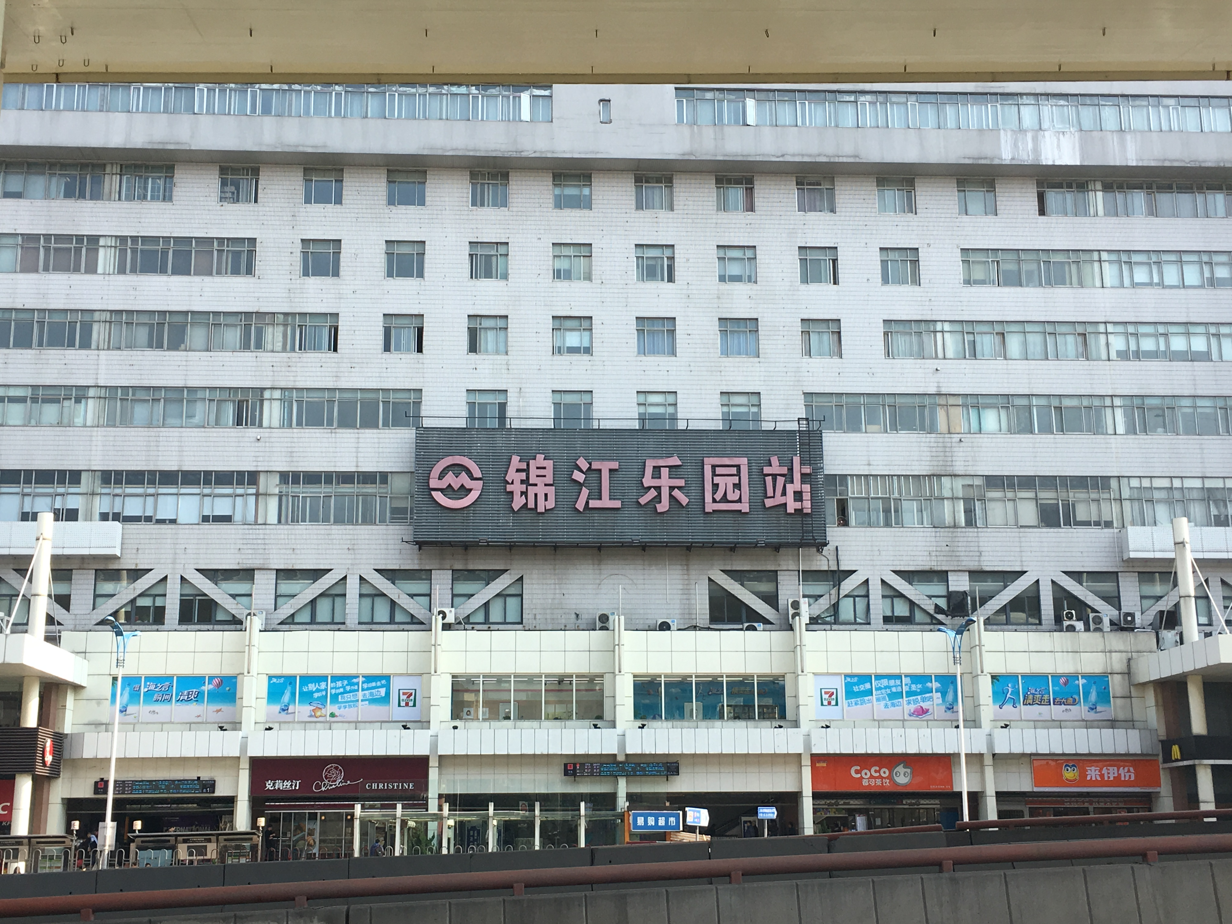 Building in Xuhui district. Jinjiang Le Yuan (Jinjiang Park) station is visible at ground floor. The big letters write the name of the station. The top of the picture is covered by Humin Elevated Road. Shanghai, China, March 2018